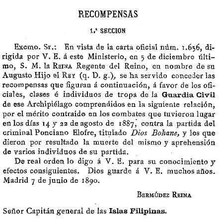 Section in the Diario Oficial del Ministerio de la Guerra discussing rewards for the Guardia Civil responsible for the death of rebel leader Ponciano Elofre (Dios Buhawi)